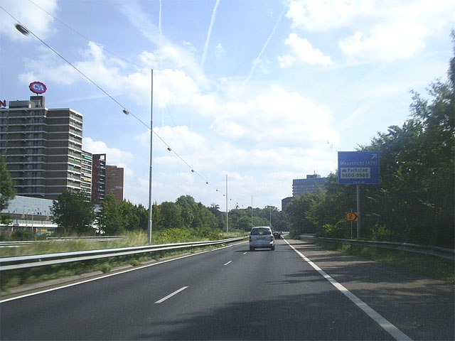 Expressway N281 near Heerlen, the Netherlands